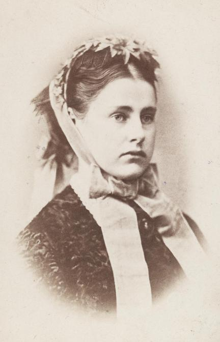 Archduchess Mathilde of Austria-Teschen.